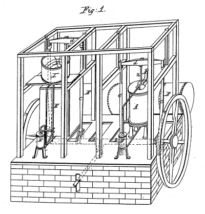 Diagram of John Gorrie's Ice Machine. From U.S. Patent 8080, May 6, 1851.